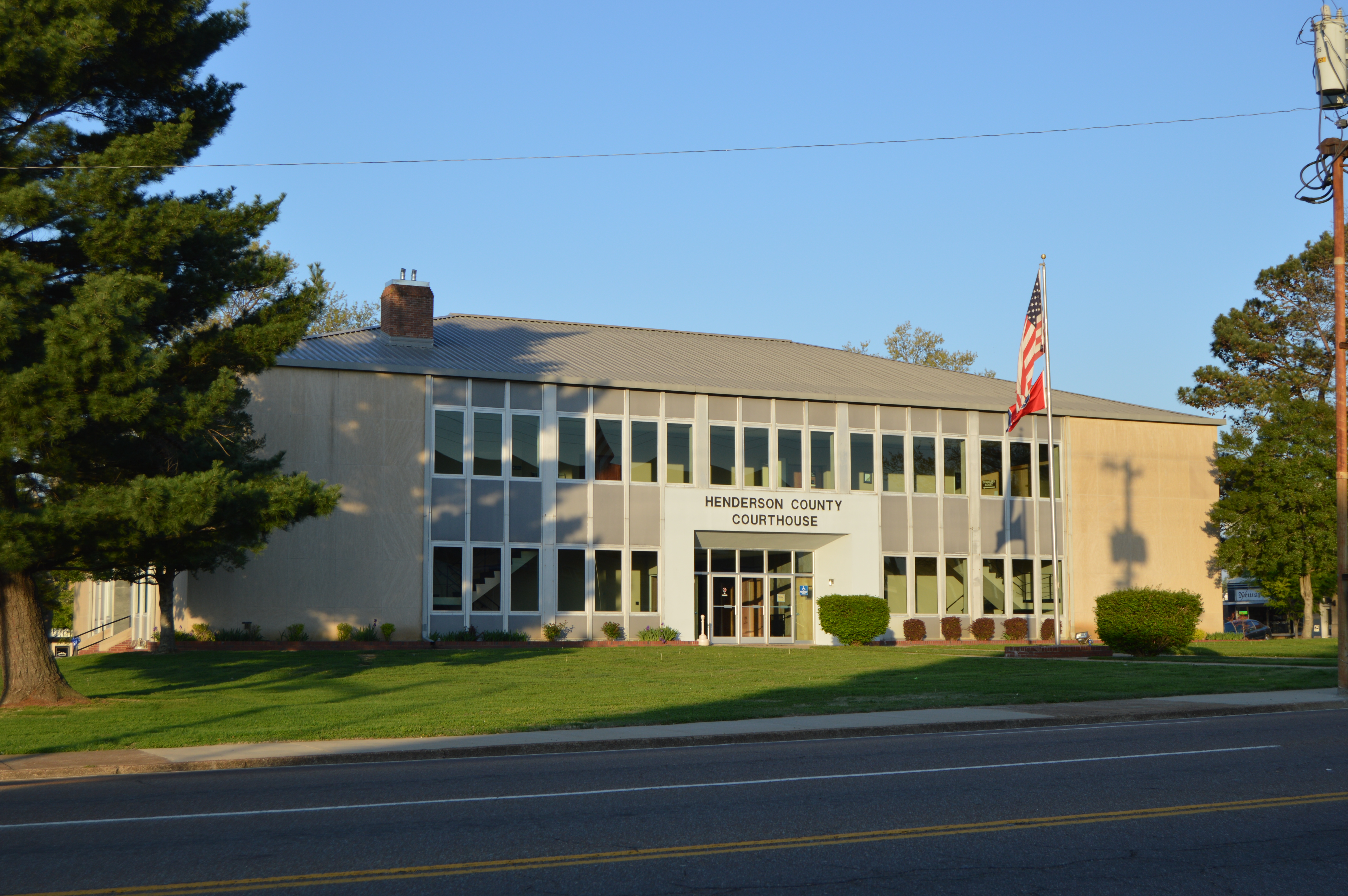 Northern side of the Henderson County Courthouse, located at 17 Monroe Street along U.S. Route 412 and State Routes 20/104 in Lexington, Tennessee, United States. It was built in 1961.